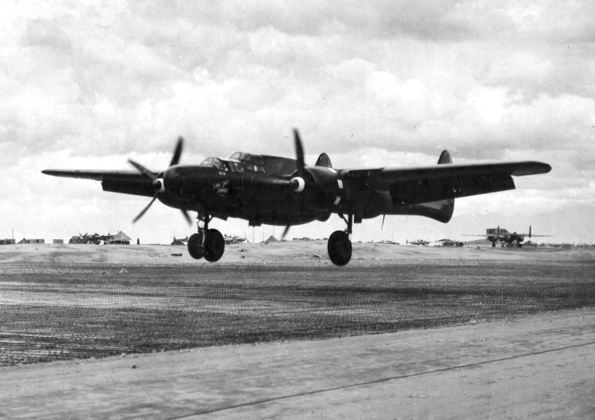 P-61B Black Widow from the 547th Night Fighter Squadron landing on Lingayen airstrip,Luzon,P.I. on May 17,1945. "Swing Shift Skipper" Northrop P-61B-1-NO Black Widow s/n 42-39440 547th Night Fighter Squadron, 5th Air Force Capt. Arthur D. Bourque - Pilot Capt. Bonnie B. Rucks - Radar Operator Aircraft was condemned for salvage as obsolete on September 28,1945.